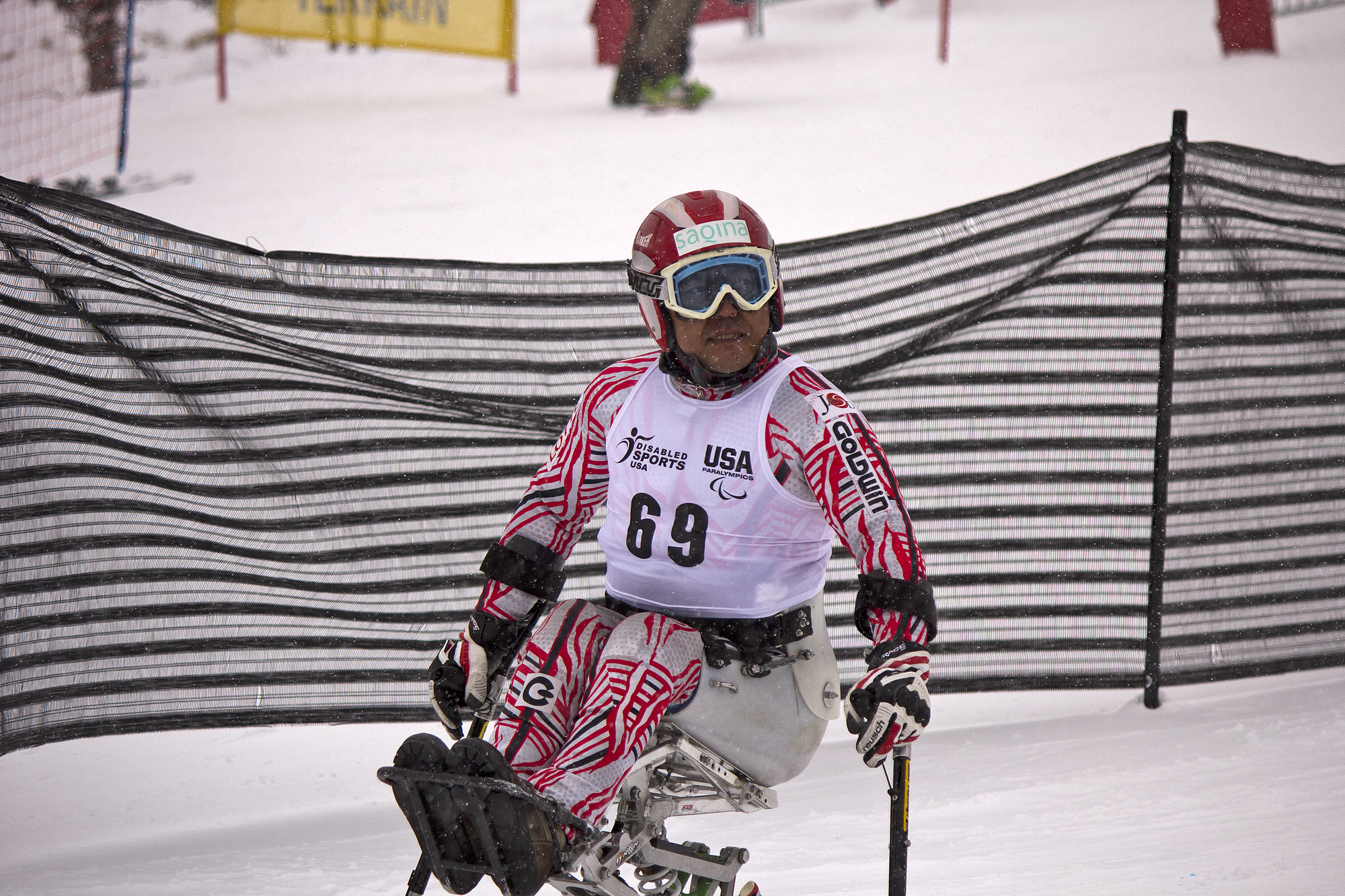 Takanori Yokosawa competing in the Super G during the 2012 IPC Nor Am Cup at Copper Mountain, Colorado.